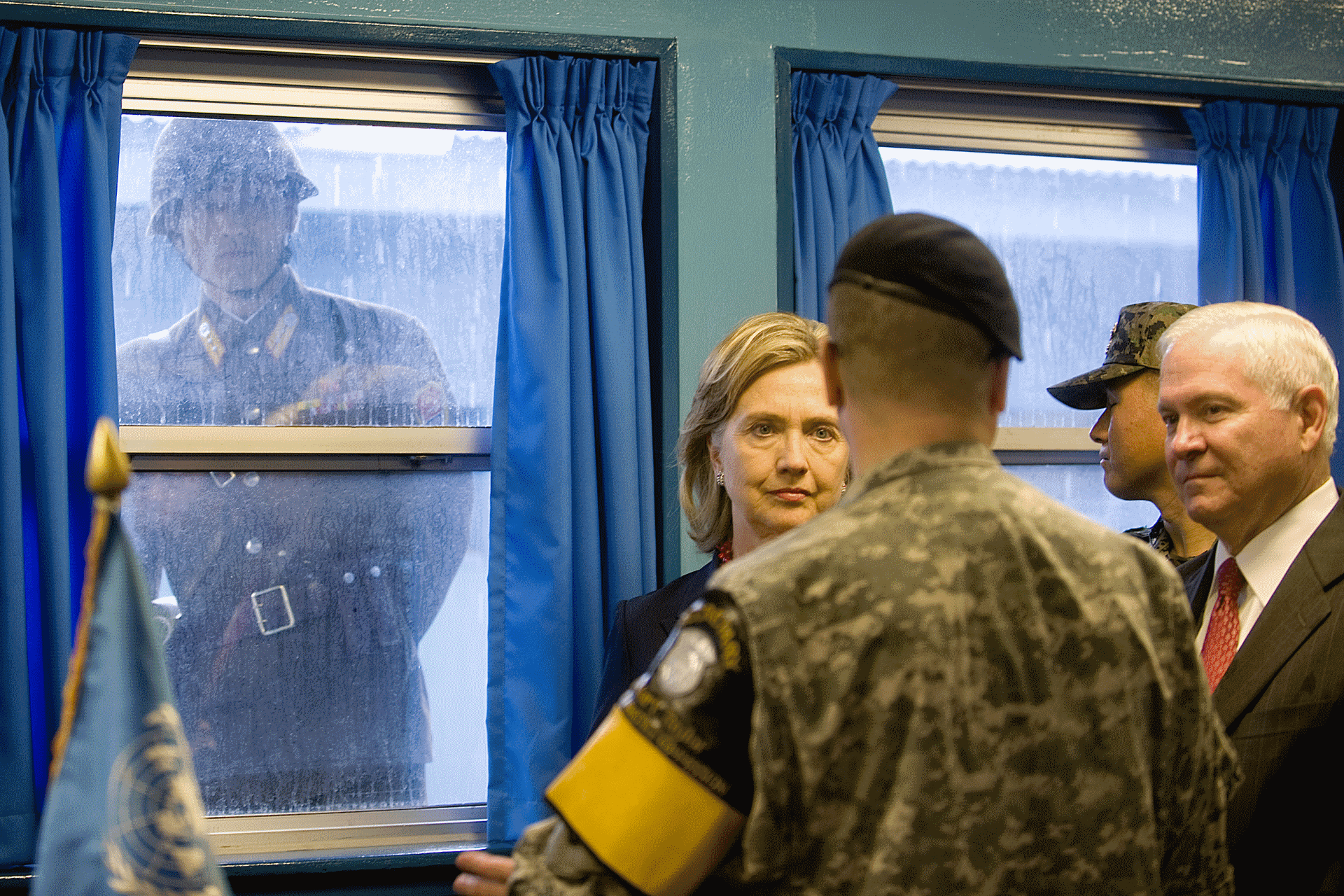 A North Korean soldier looks in through the window of the T2 building as Secretary of State Hillary Clinton and Secretary of Defense Robert M. Gates tour the Demilitarized Zone in Korea on July 21, 2010.